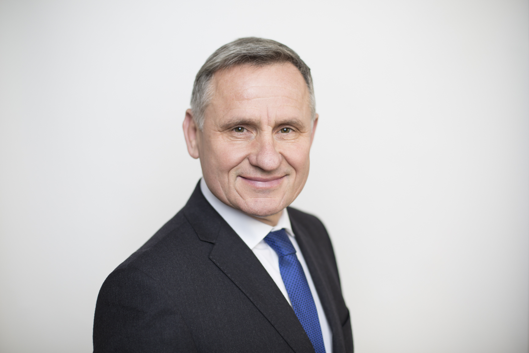 Jiří Čunek is from 2018 member of the Senate of the Parliament of the Czech Republic